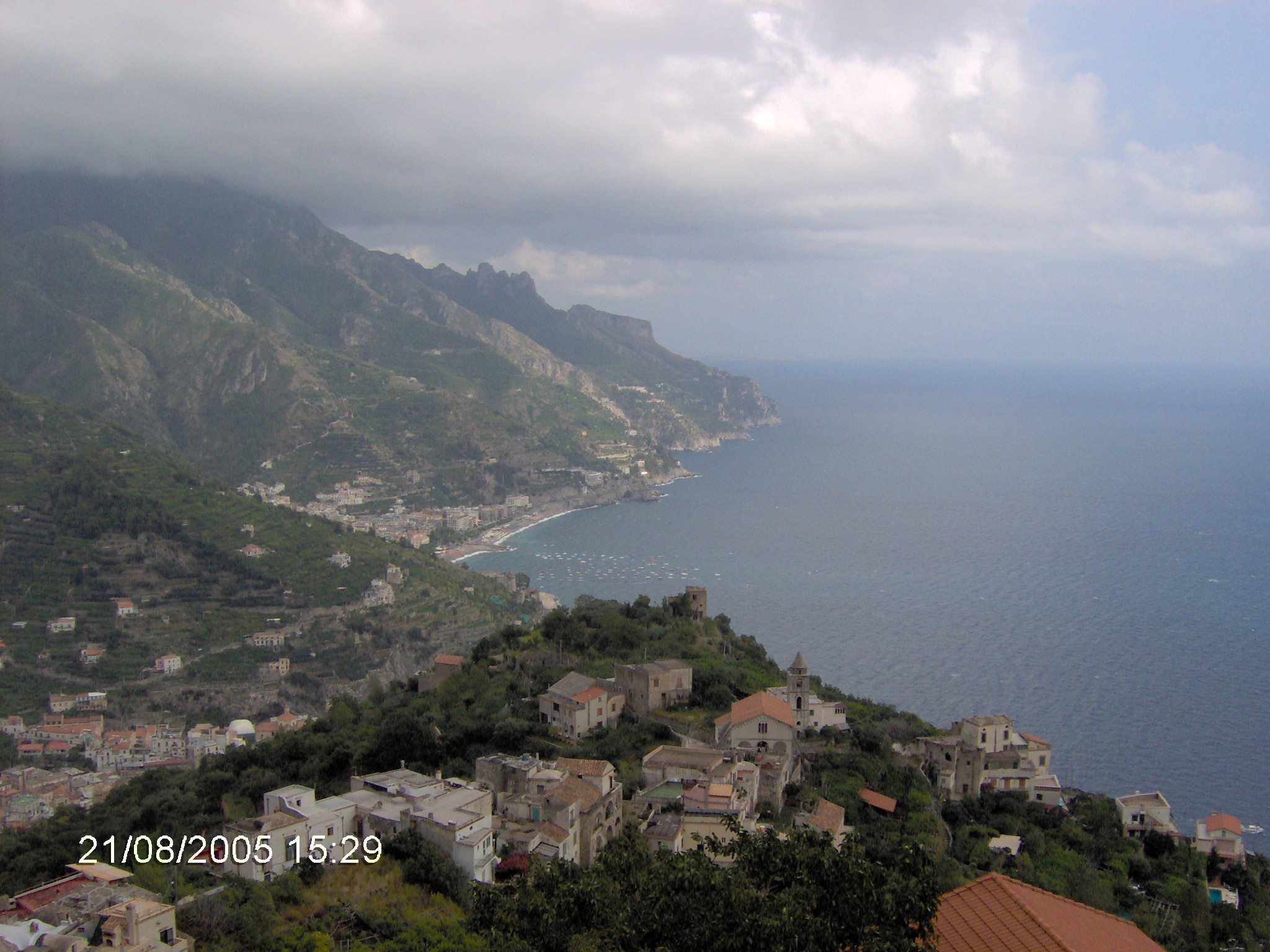 View of Minori from Ravello, Campania, Italy